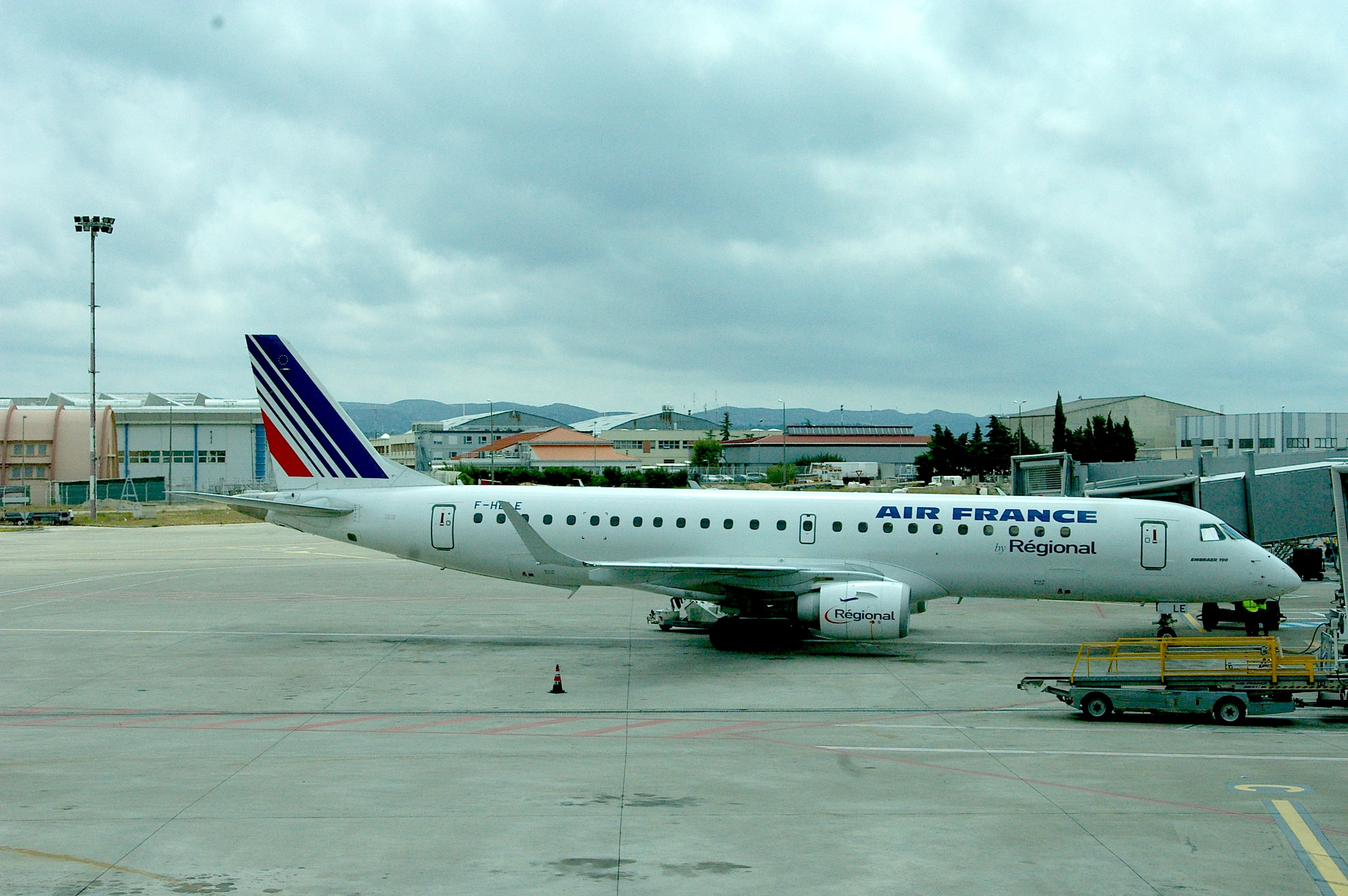 Régional Embraer 190